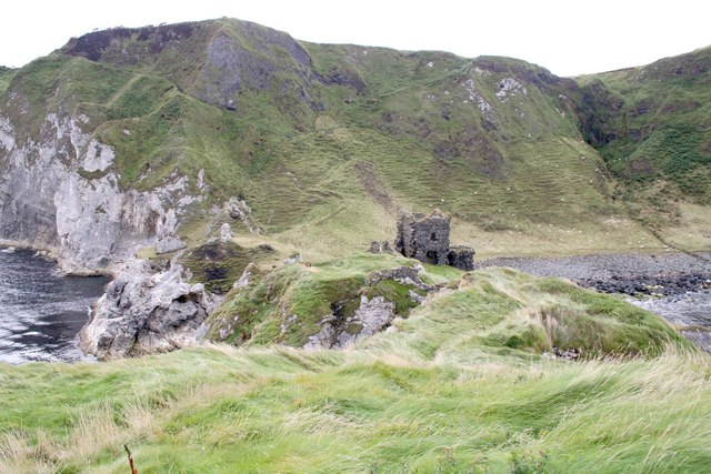 Kinbane Castle was originally a two storey building built in 1547 by Colla MacDonnell, who died within its walls in 1558. Behind its defences lies a large courtyard with traces of other buildings, probably constructed out of wood. It also offers spectacular views of Rathlin Island and Dunagregor Iron Age fort.